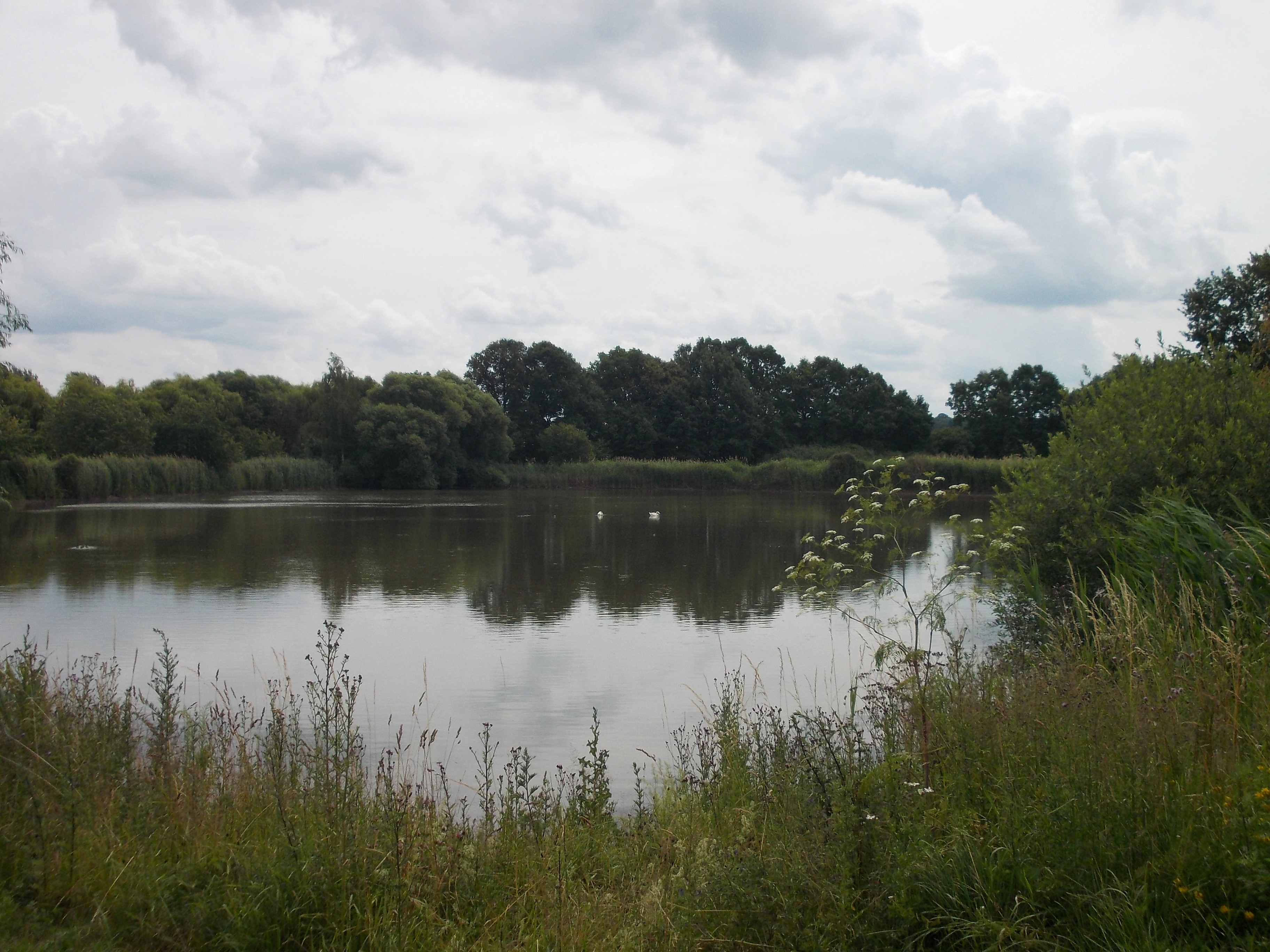 Streckteich, one of the Eschefeld Ponds (nature reserve), Frohburg (Leipzig district, Saxony)